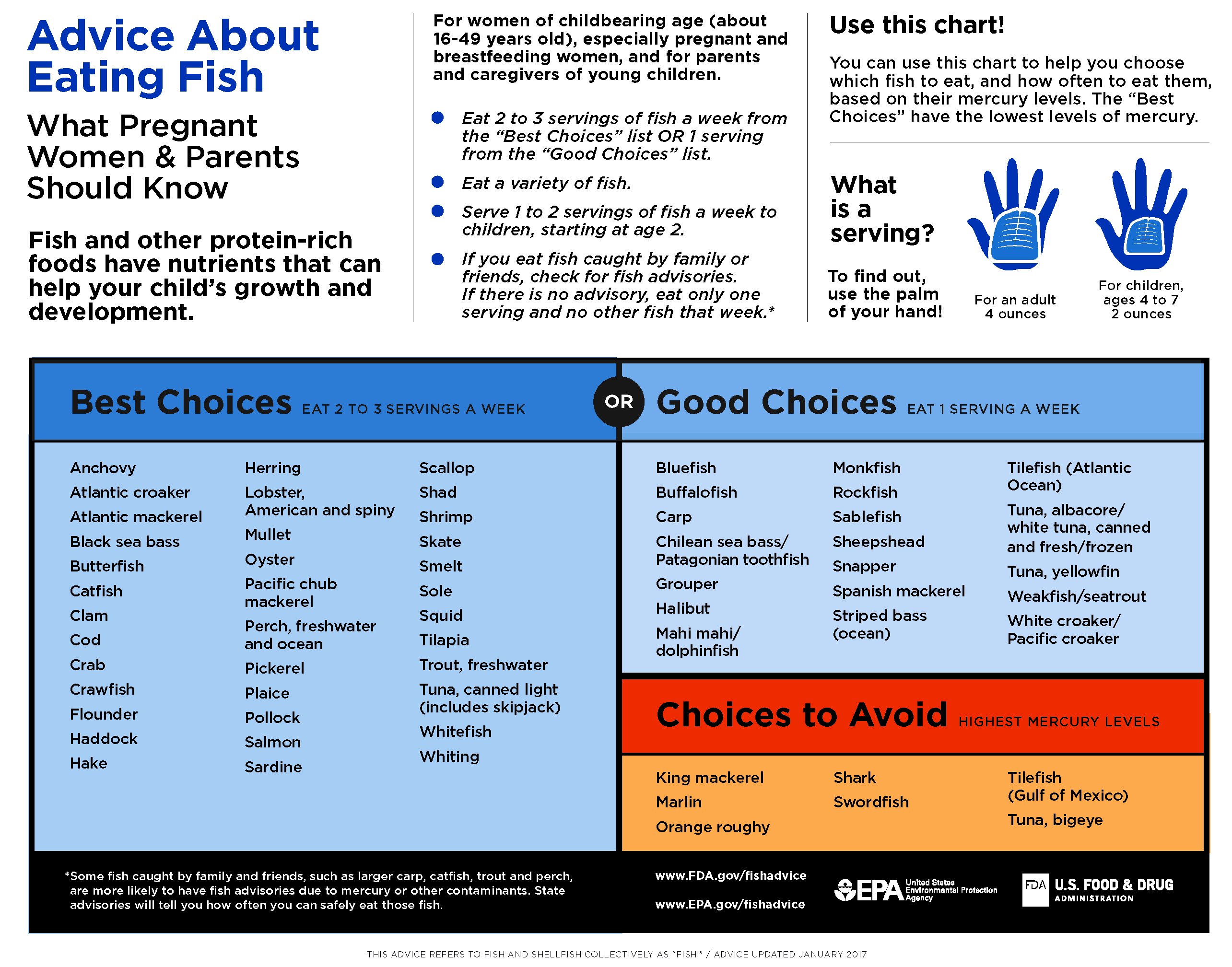 Poster, "Advice about Eating Fish. What Pregnant Women & Parents Should Know." Types of fish to eat categorized as "Best Choices," "Good Choices" and "Choices to Avoid", based on mercury levels found in fish and risk to human health.